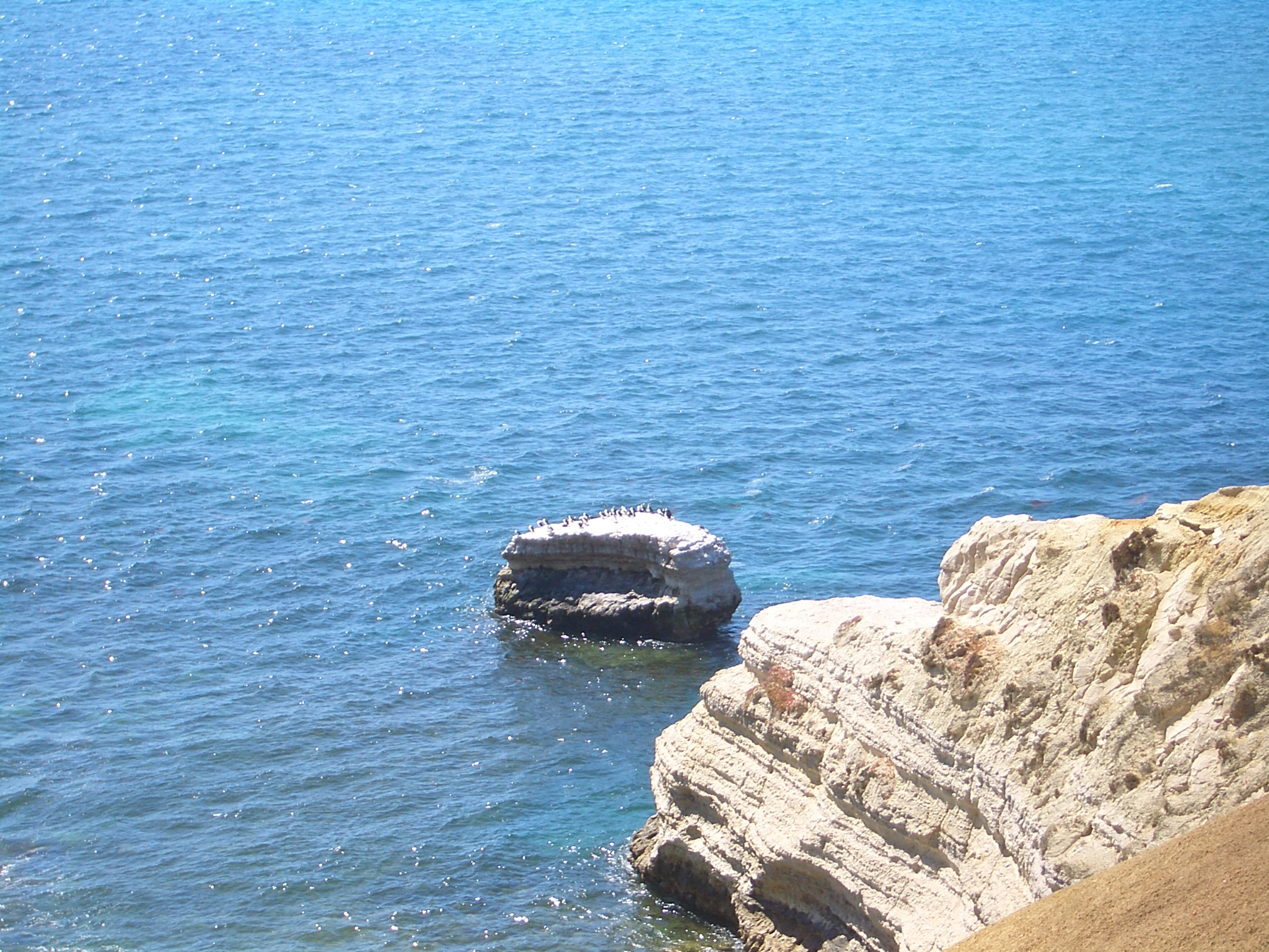 The guano-covered rock off the southern tip of Maslin Beach